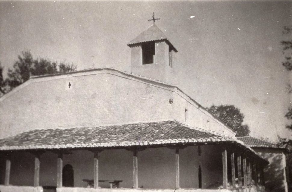 Church in Negorci, photo from 1931 This media file is produced by Wikipedian in Residence in Category:Wikipedian in Residence at DARM in 2016.